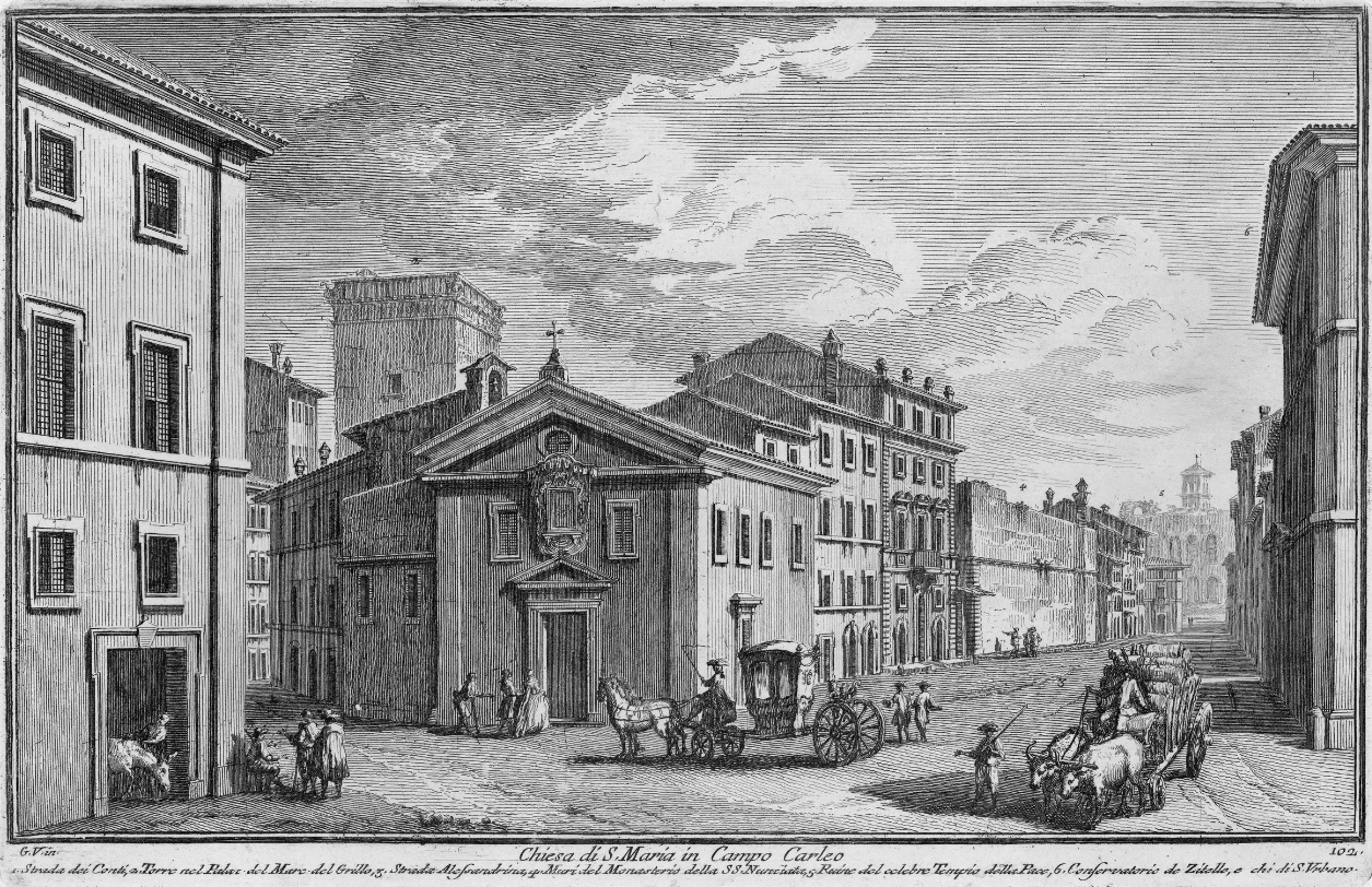 PLATE Nº 102: 1) Strada dei Conti; 2) Tower of Palazzo del Marchese del Grillo; 3) Strada Alessandrina; 4) Walls of Monasterio della SS. Nunziata; 5) Ruins of Tempio della Pace (at the end of the street); 6) Chiesa di S. Urbano. The building with a balcony on the left side of Strada Alessandrina is the House of Flaminio Ponzio, now reconstructed in Piazza Campitelli.